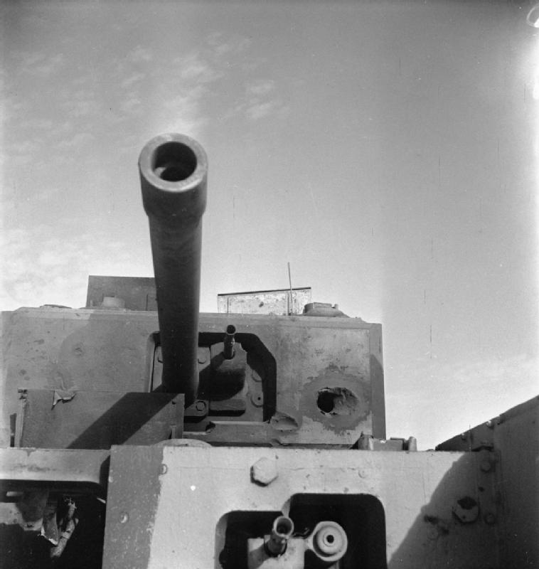 The British Army in North Africa 1942 Close-up of the turret of a knocked-out Churchill III tank of 'Kingforce', 2 November 1942. The hole made by an 88mm shell which penetrated the turret front can be clearly seen.